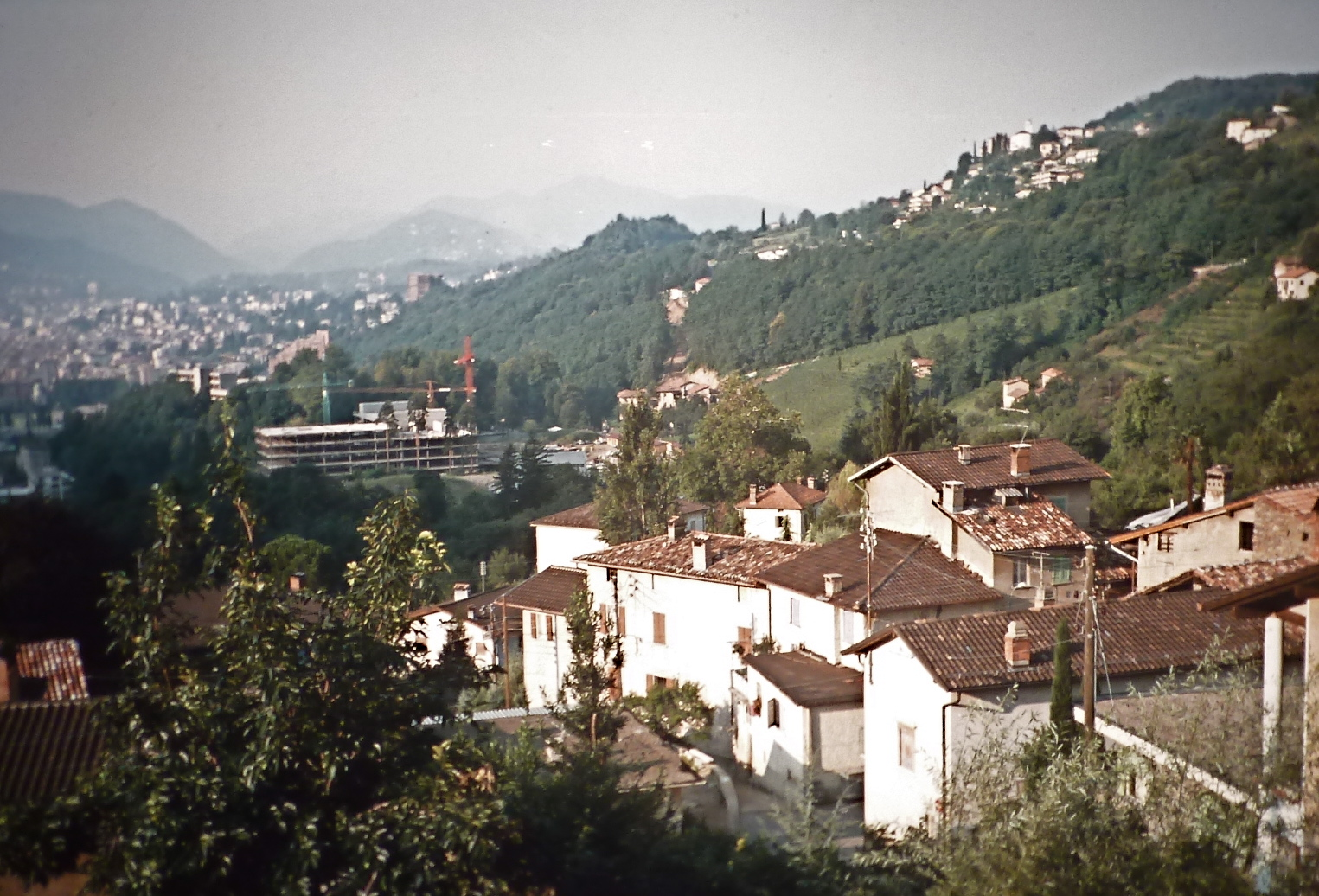 Photographed from the balcony where I lived for 20 years from 1974 to 1994 Photo analog (rephotographed) shot in 1975 in Canobbio, Ticino, Switzerland. Foreground is Canobbio, with Lugano in the left background and Porza in the right background on the hill